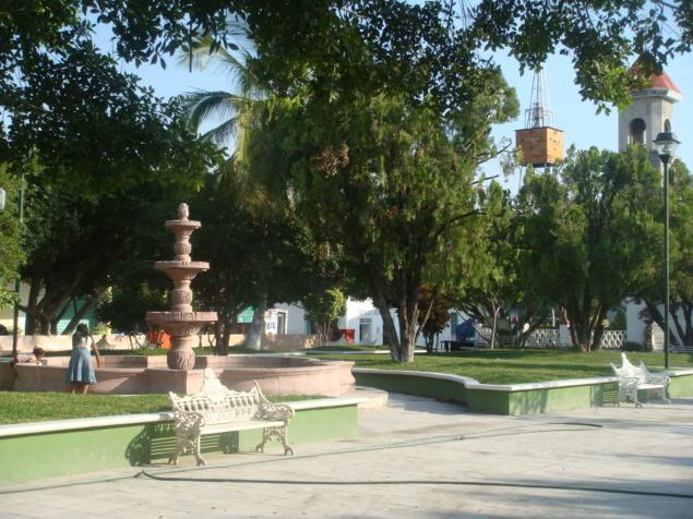 Plaza in the village of Parácuaro, Michoacán state.